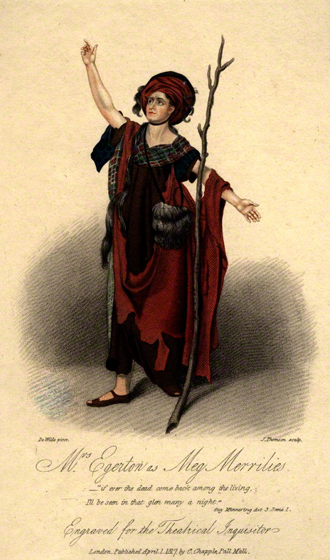 Engraving of the actress Sarah Egerton (1782–1847) in the role of Meg Merrilies, from Daniel Terry's musical stage adaptation of Walter Scott's novel Guy Mannering.